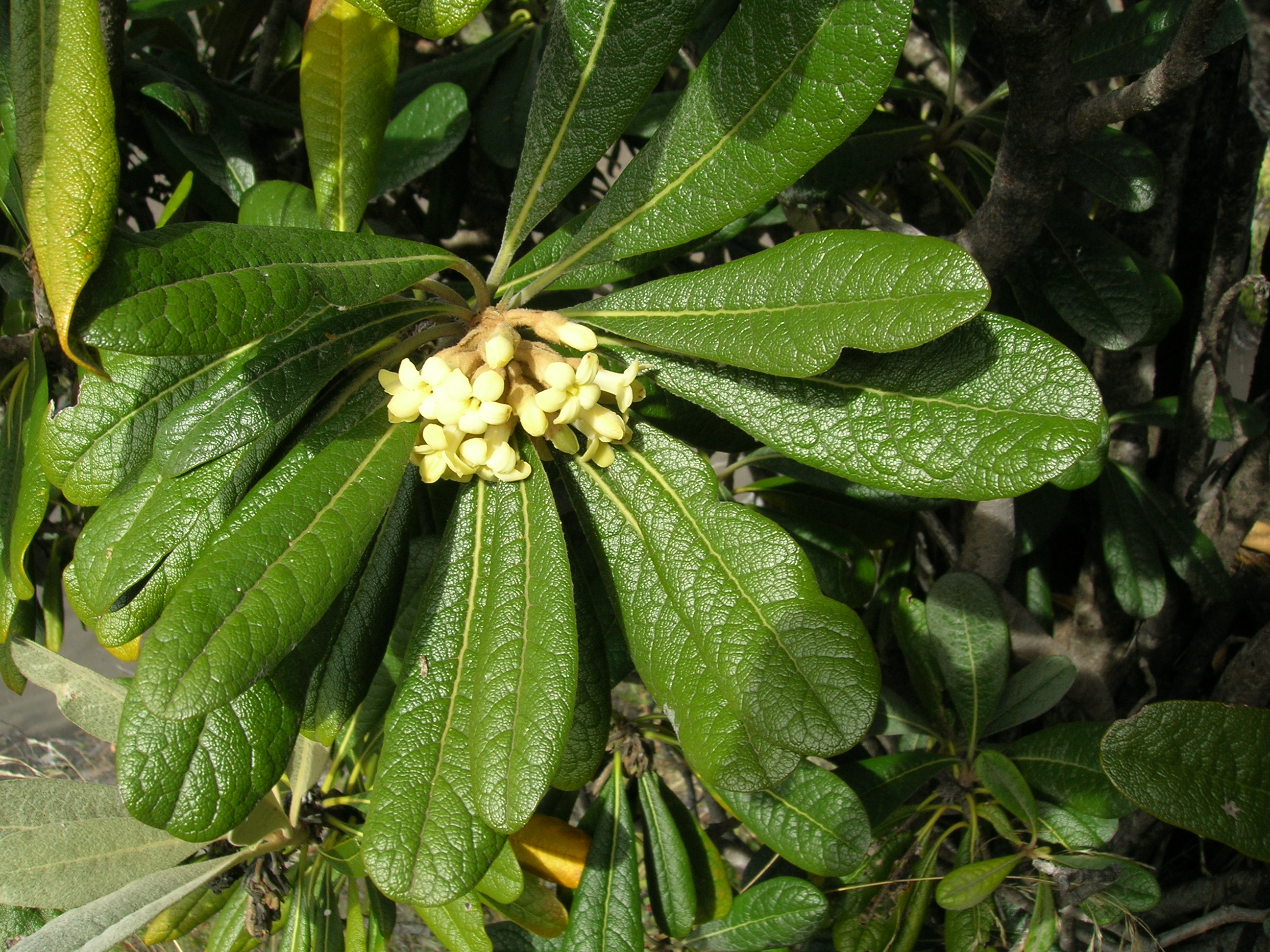 Pittosporum confertiflorum (flowers). Location: Maui, Puu Maile Haleakala National Park